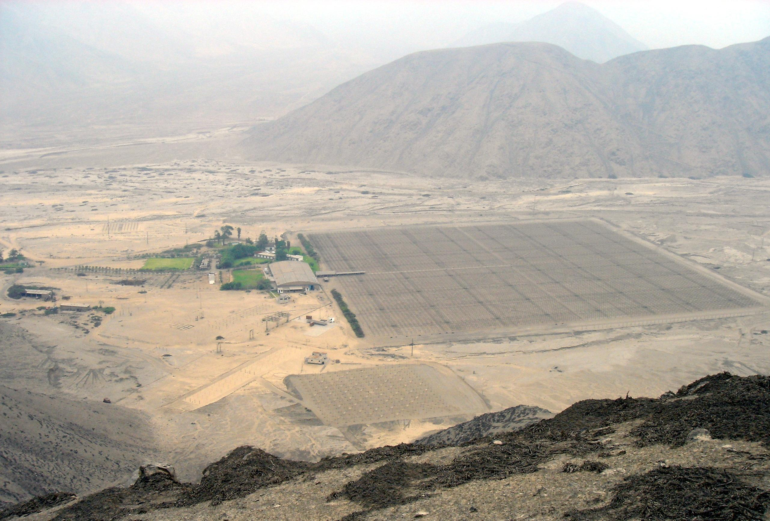 The Jicamarca Radio Observatory (JRO), near Lima, Peru, is the premier scientific facility in the world for studying the equatorial ionosphere. [1]